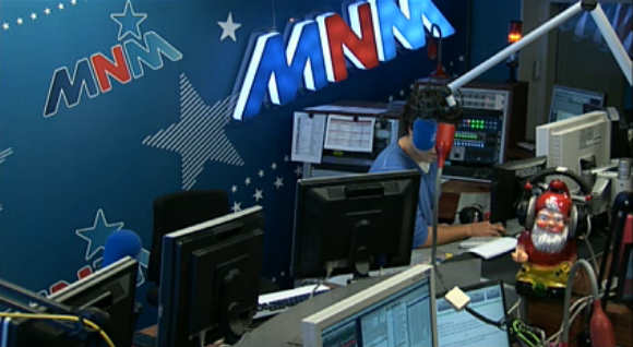 Studio of MNM